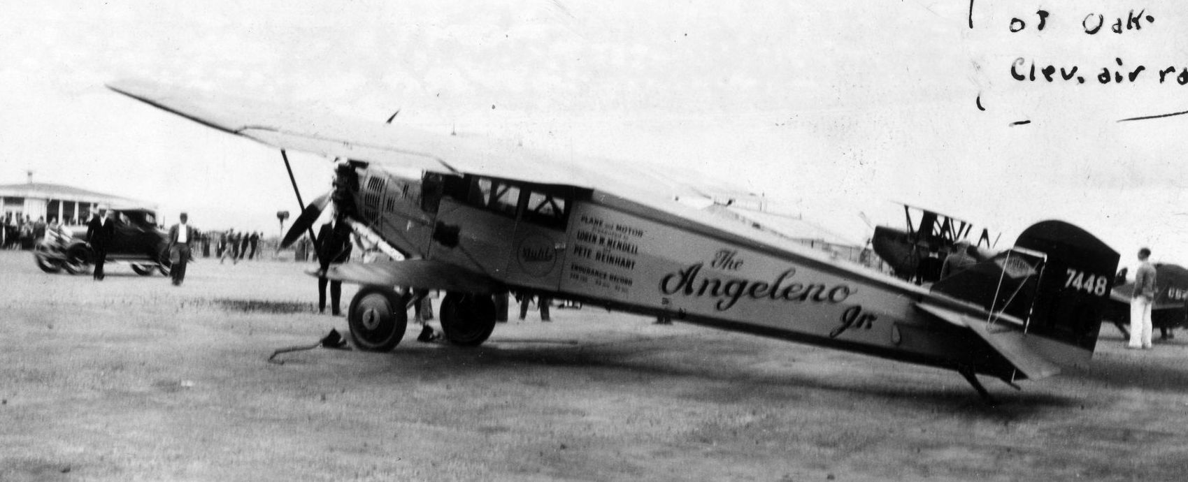 Photos from an Album (AL-218) containing images of aircraft taken circa 1930-40 in the bay area. Repository: San Diego Air and Space Museum Archive